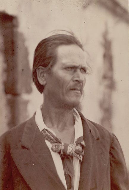 Kaitae, Nearest Descendant of the Last King of Easter Island. The king in question is Maurata, the last king with political authority before the Peruvian slave raids.